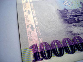 The dram sign repeated on the reverse of Armenian 10,000 dram bill